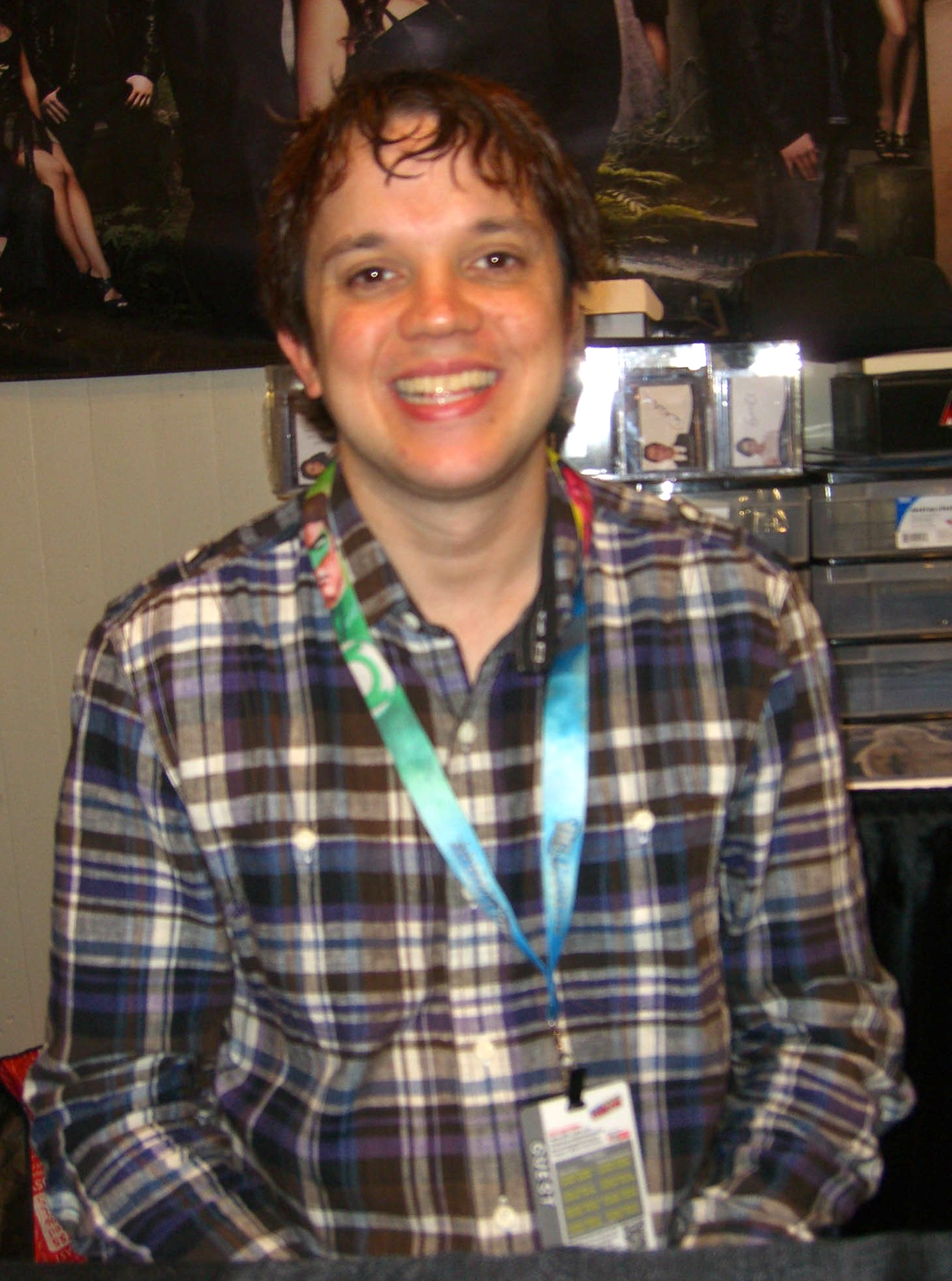 Actor Eric Millegan on Day 3 of the 2012 New York Comic Con, Saturday October 13, 2012 at the Jacob K. Javits Convention Center in Manhattan. This photo was created by Luigi Novi. It is not in the public domain, and use of this file outside of the licensing terms is a copyright violation.